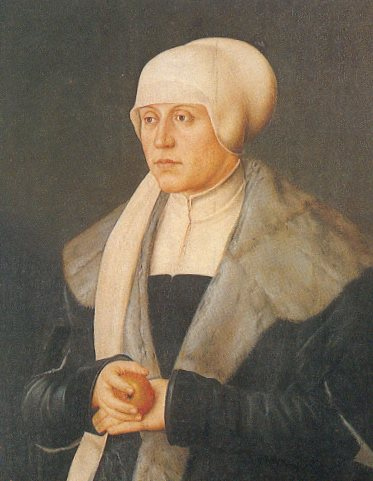 Portrait of Kunigunde of Austria